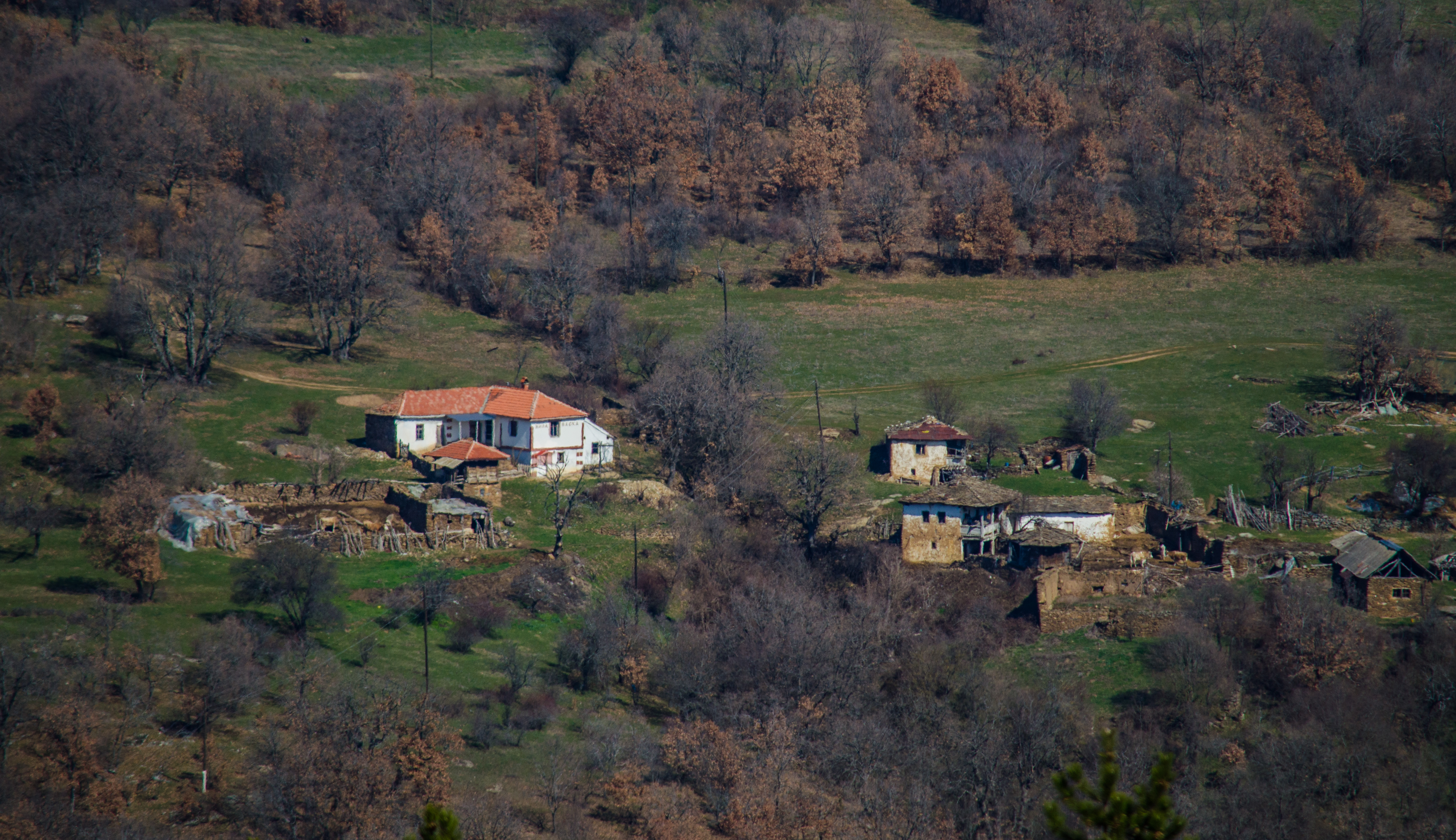 View of the village Malotino